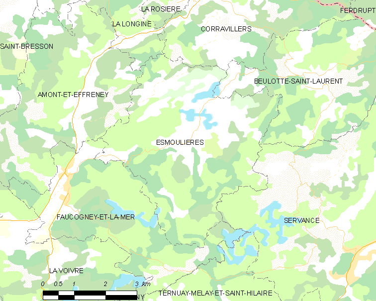 Map of French municipality